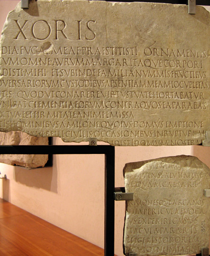 Fragment of tombstone Laudatio Turiae